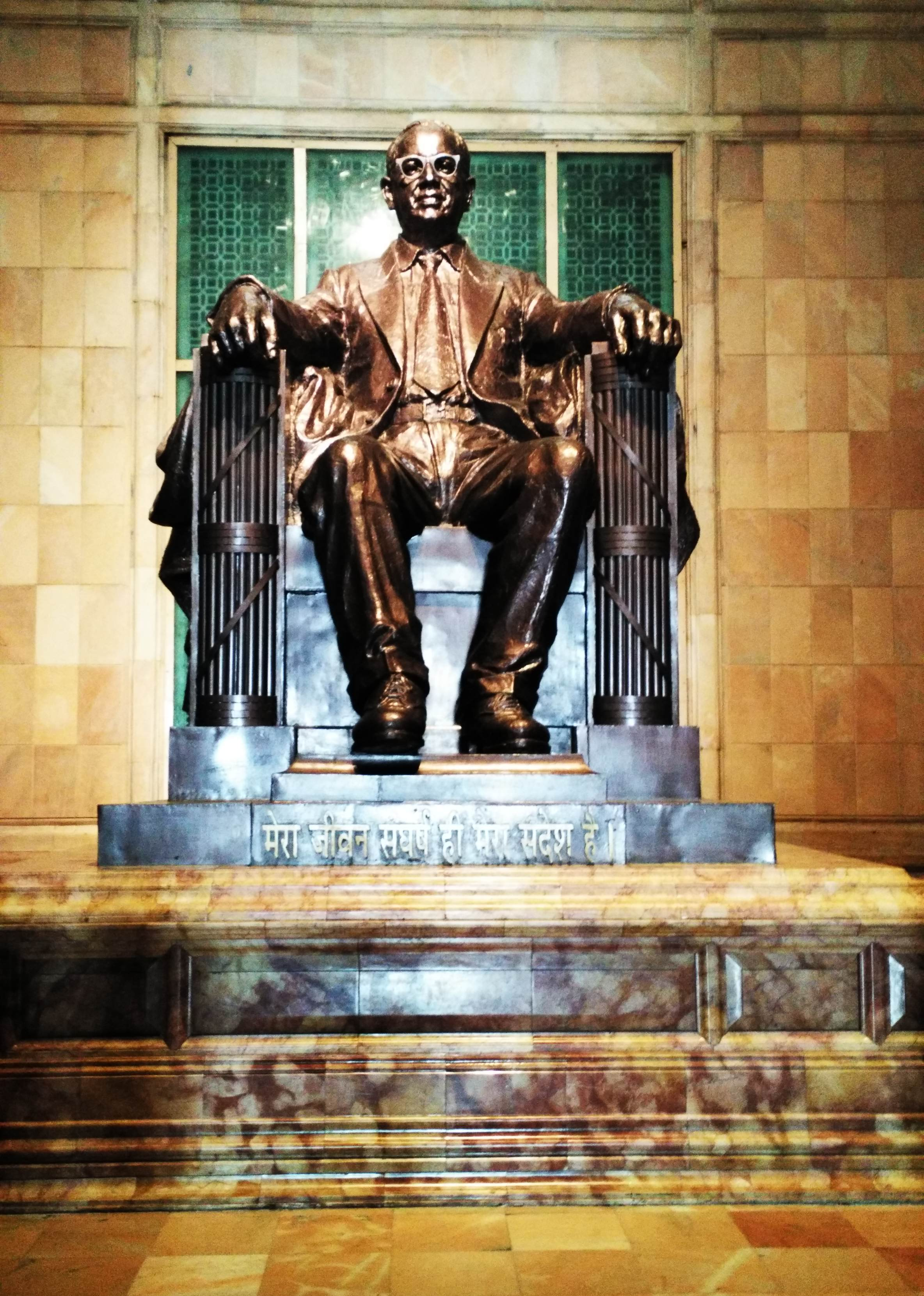 The bronze statue of Babasaheb Ambedkar in Ambedkar Memorial Park, Lucknow, identical to Lincoln's.